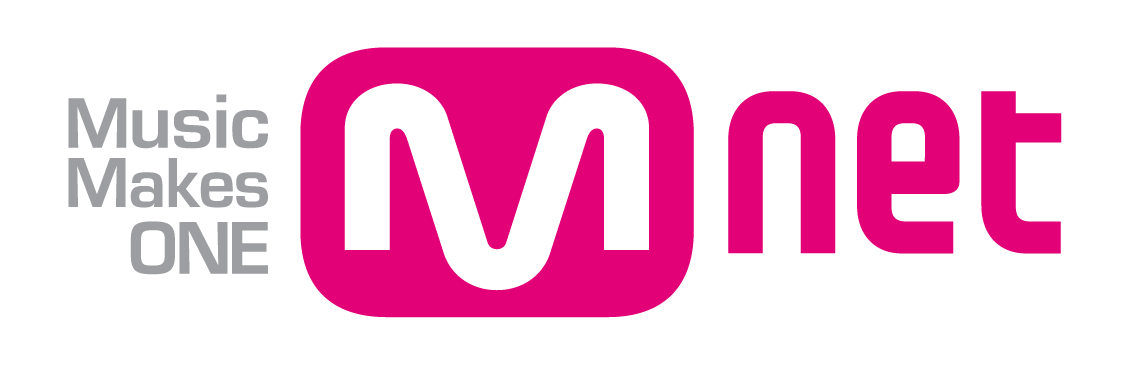 Music Makes One Mnet Logo